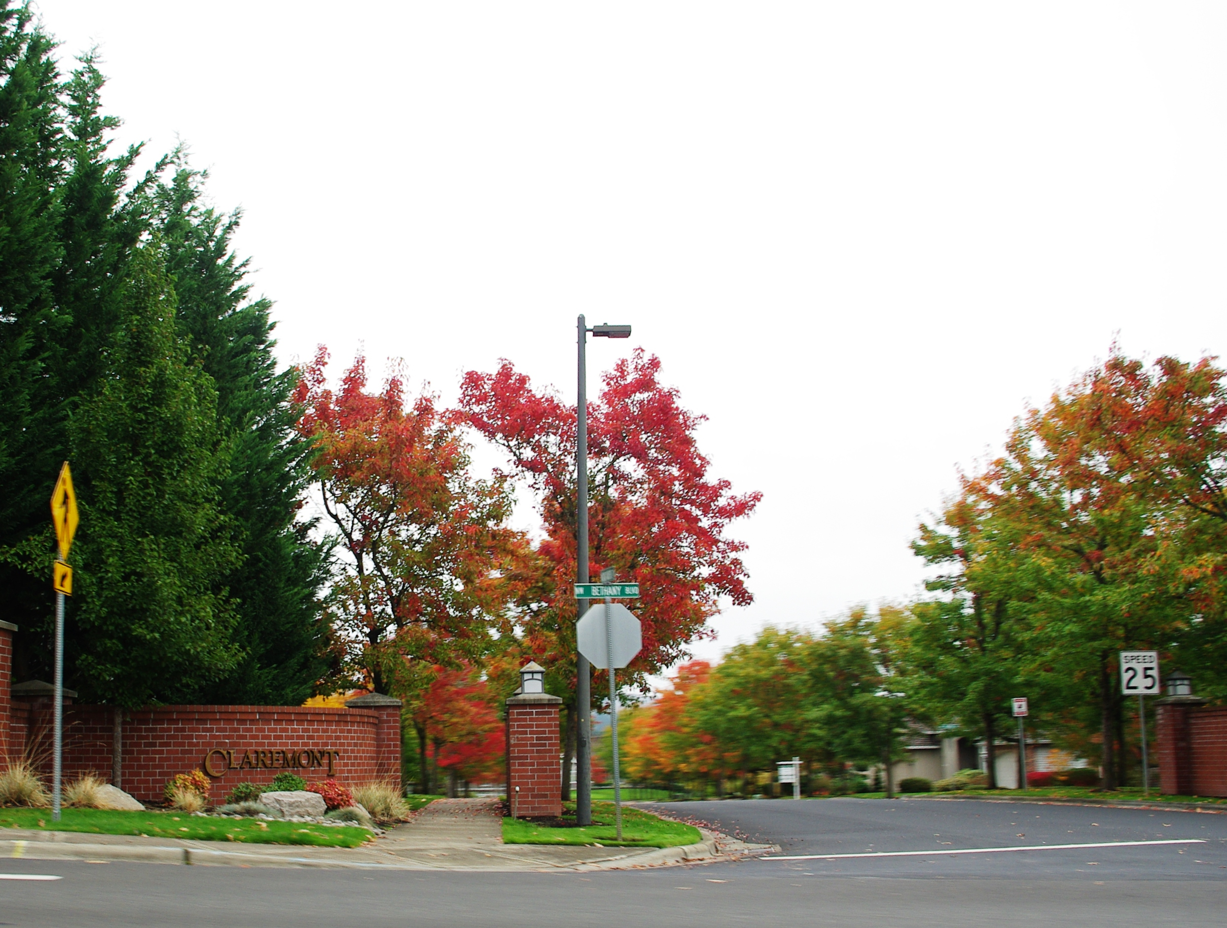 Entrance to a subdivision in Bethany, Oregon, USA.